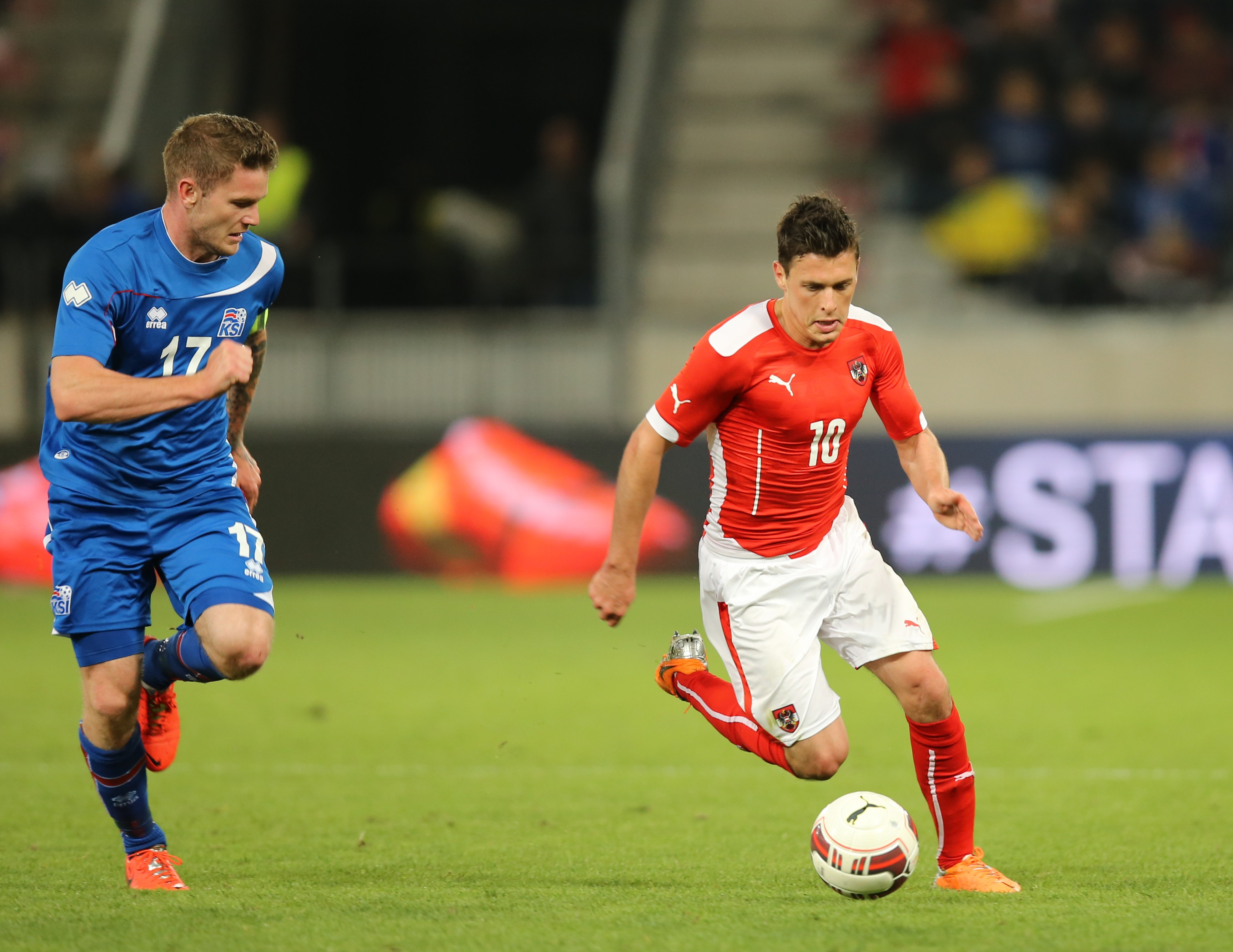 Austria - Iceland football match in Innsbruck, Austria on 2014-05-30. Austria in red, Iceland in blue.